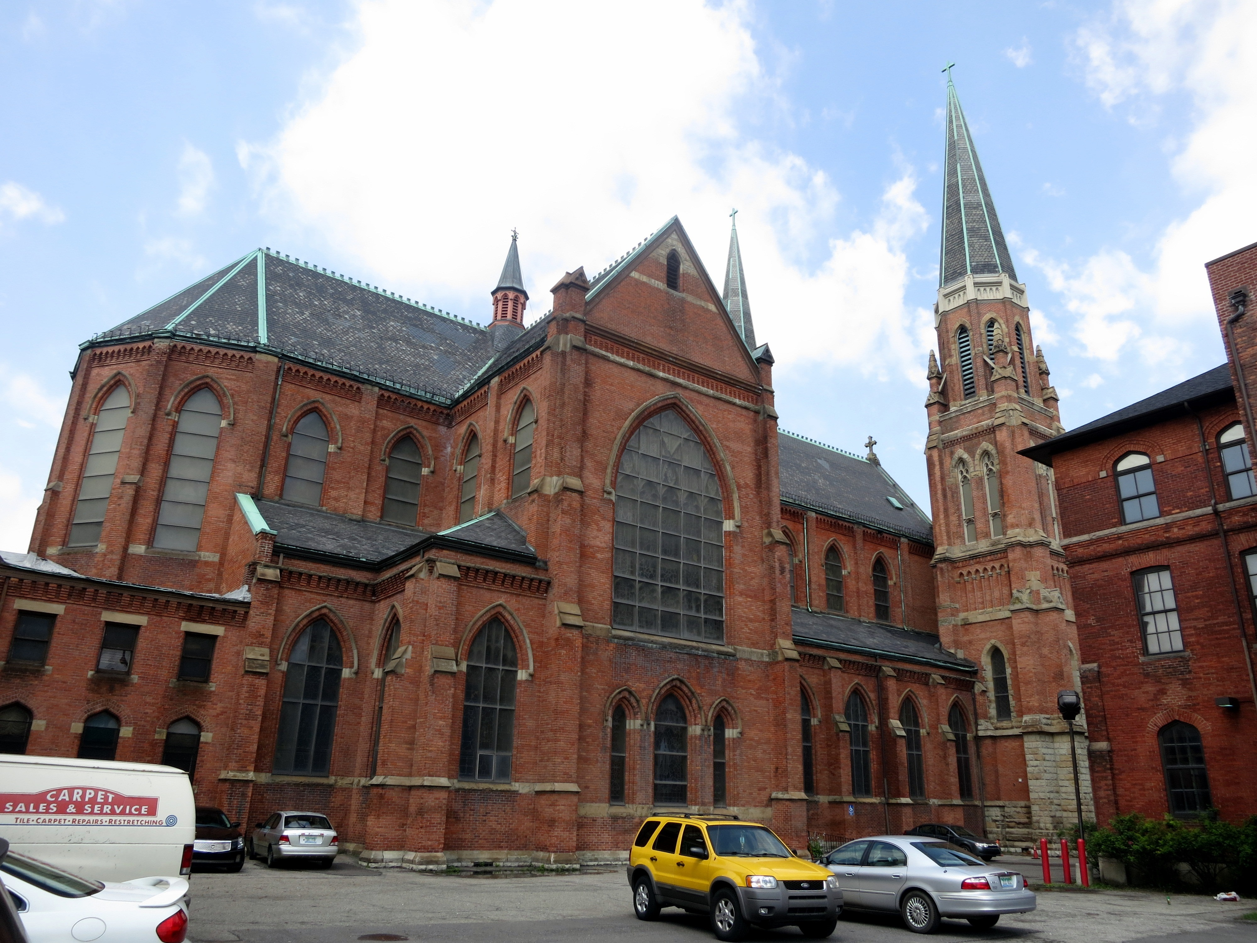 Sainte Anne de Detroit Catholic Church (Detroit, MI) - exterior, side